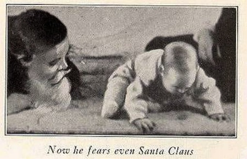 A photograph taken during the so-called Little Albert Experiment